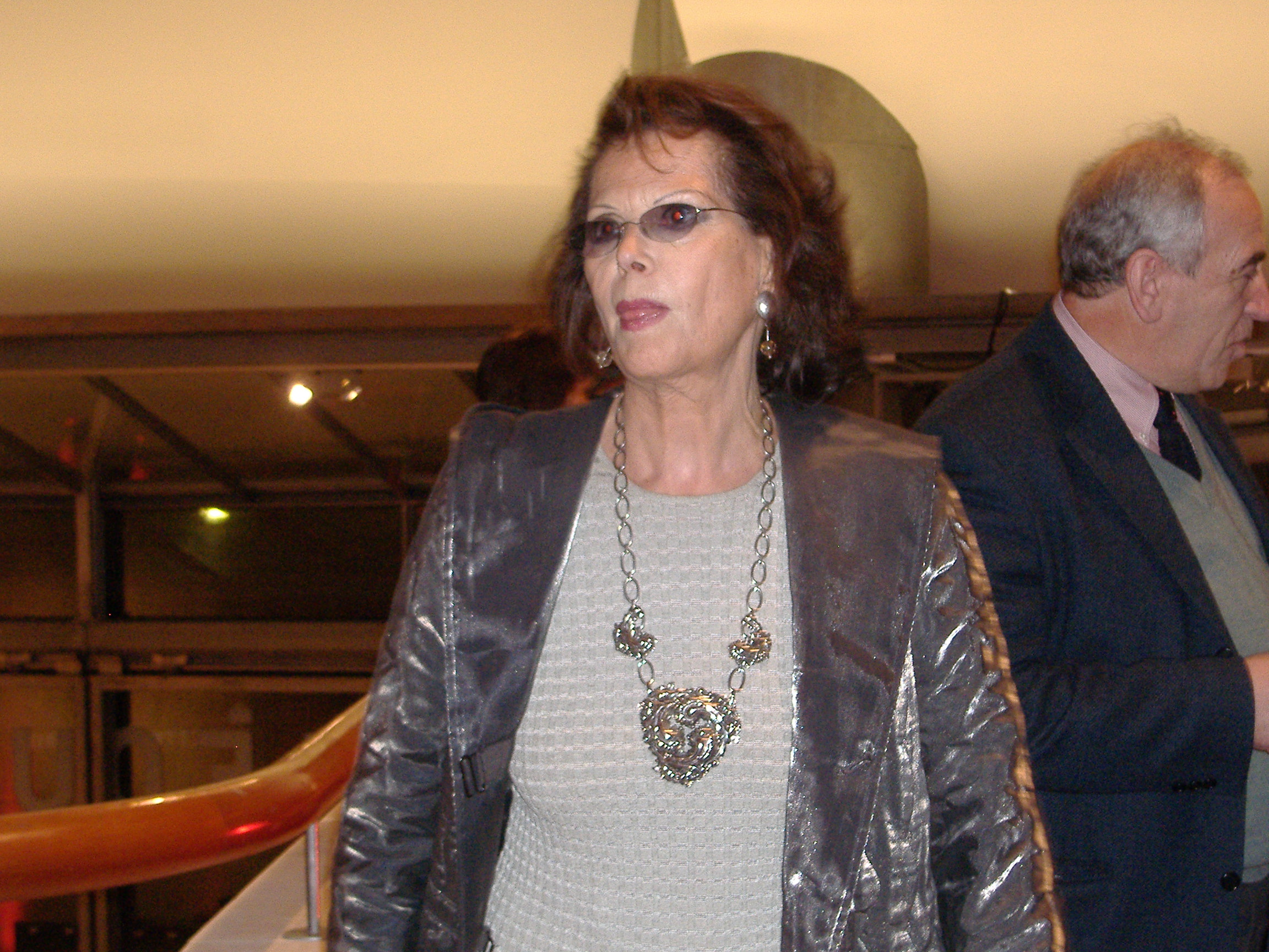 Italian actress Claudia Cardinale